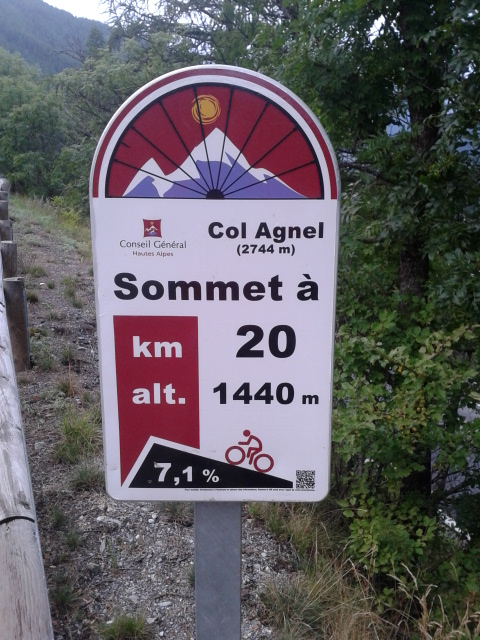 Mountain pass cycling milestone at the Col Agnel in France ascending from Château-Queyras